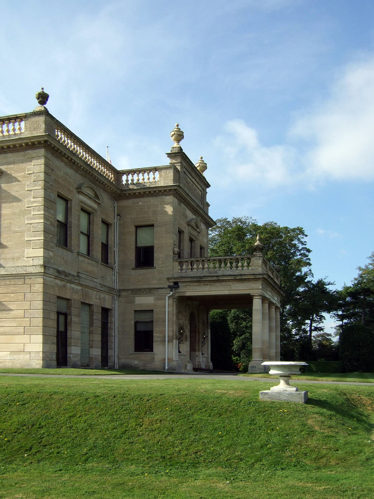 Neoclassical Brodsworth Hall with porte-cochè — in South Yorkshire.